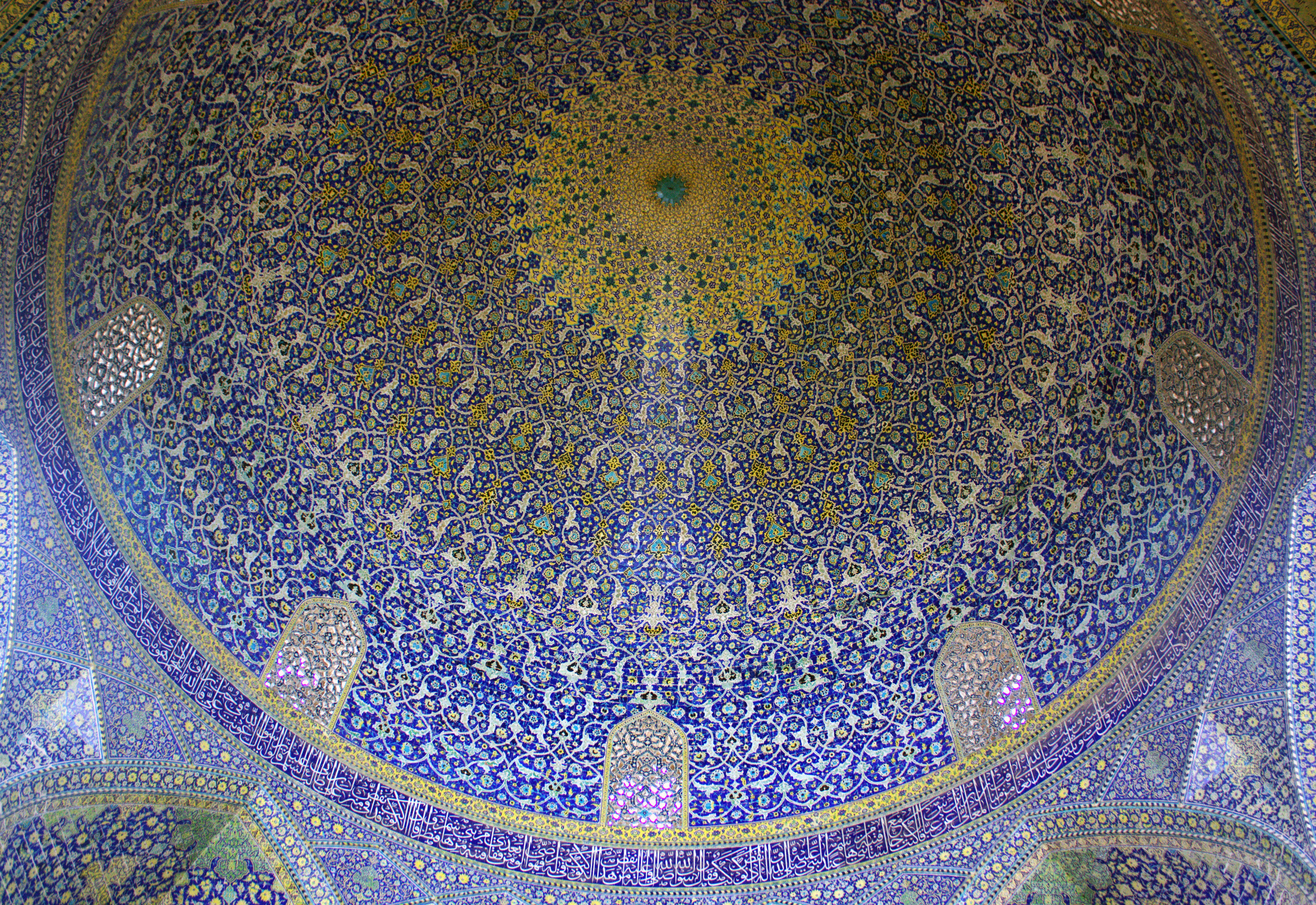 shah mosque Isfahan